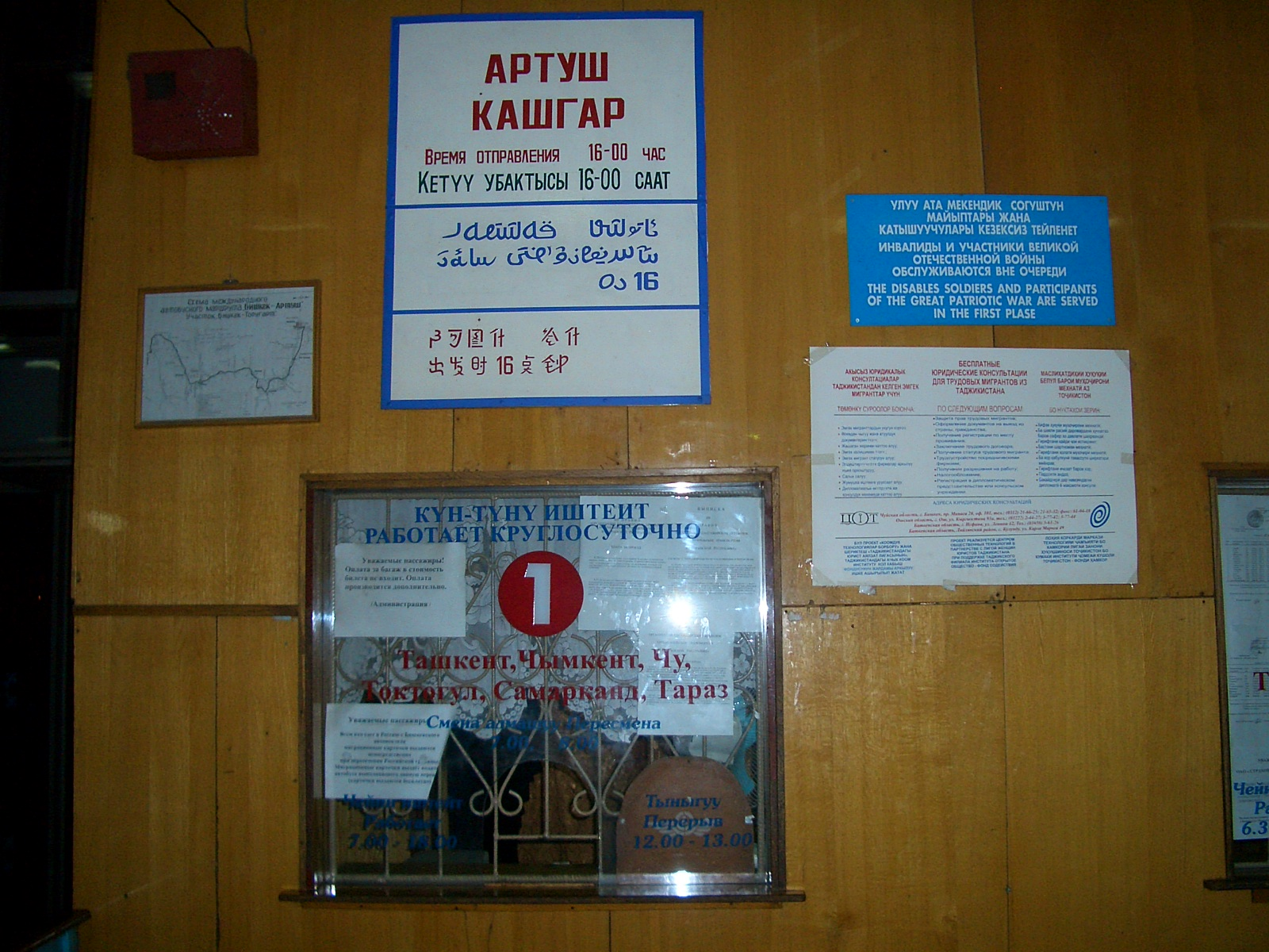 Ticket windows in the main hall of Bishkek's West (New) Bus Terminal. The bus schedules include one for an international bus, Bishkek-Kashgar. However, the ticket clerks attempt to provide information in four languages may not have been too successful when they tried to do so in Chinese and Uyghur.